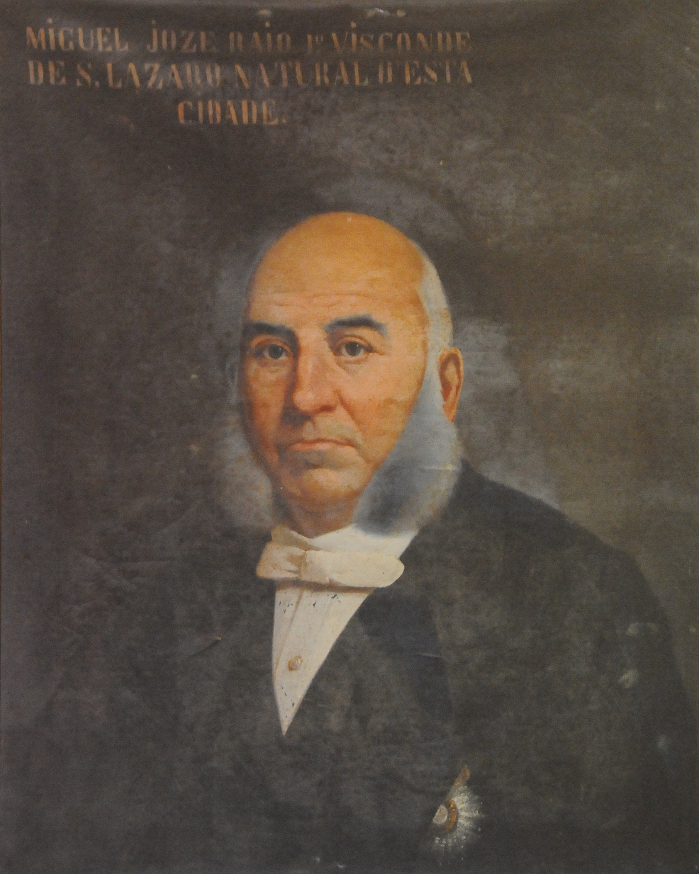 Painting of Miguel José Raio, 1st Viscount of São Lázaro, in Raio Palace, Braga, Portugal.